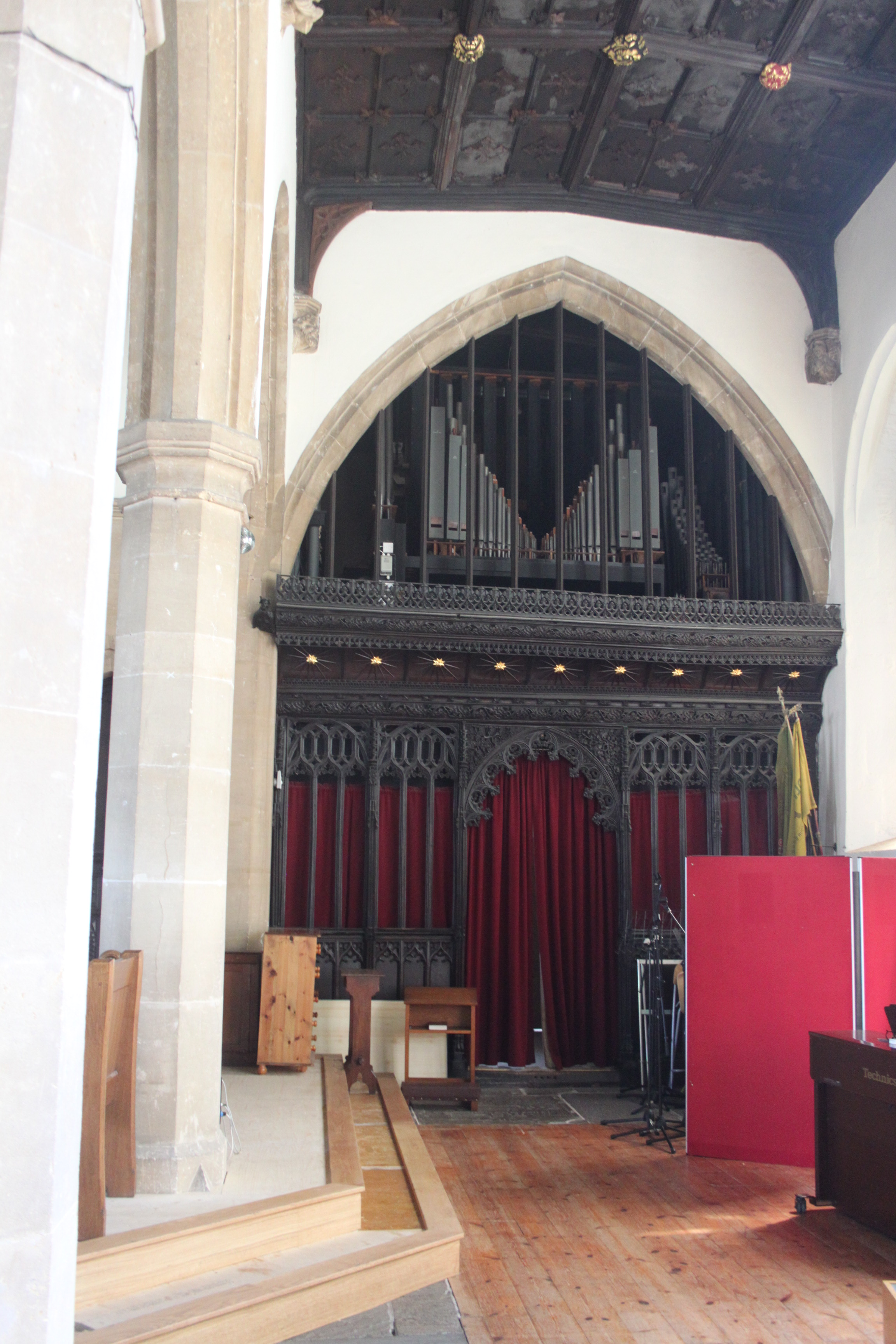 Church of St John the Baptist, Keynsham